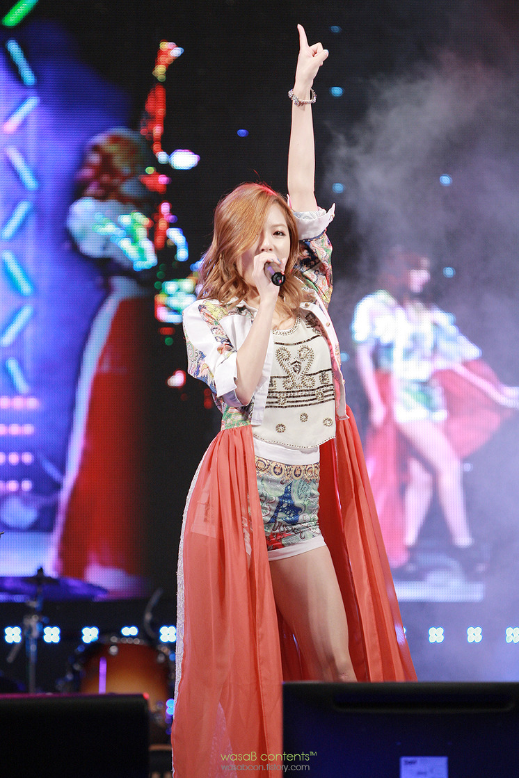 HyunA in September 15, 2012 at the Paju Sound of a Drum Festival.